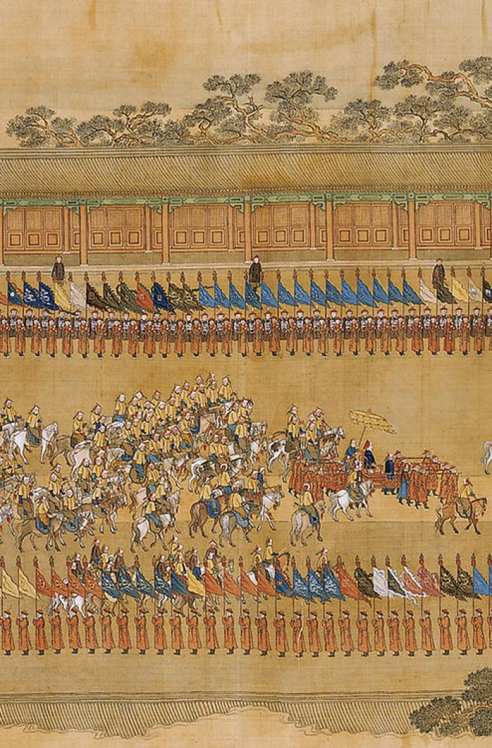 The Qianlong Emperor’s Southern Inspection Tour, Scroll Twelve: Return to the Palace (detail), 1764—1770, by Xu Yang (fl.c.1750—after 1776) and assistants. Handscroll, colour on silk. The Palace Museum, Beijing.